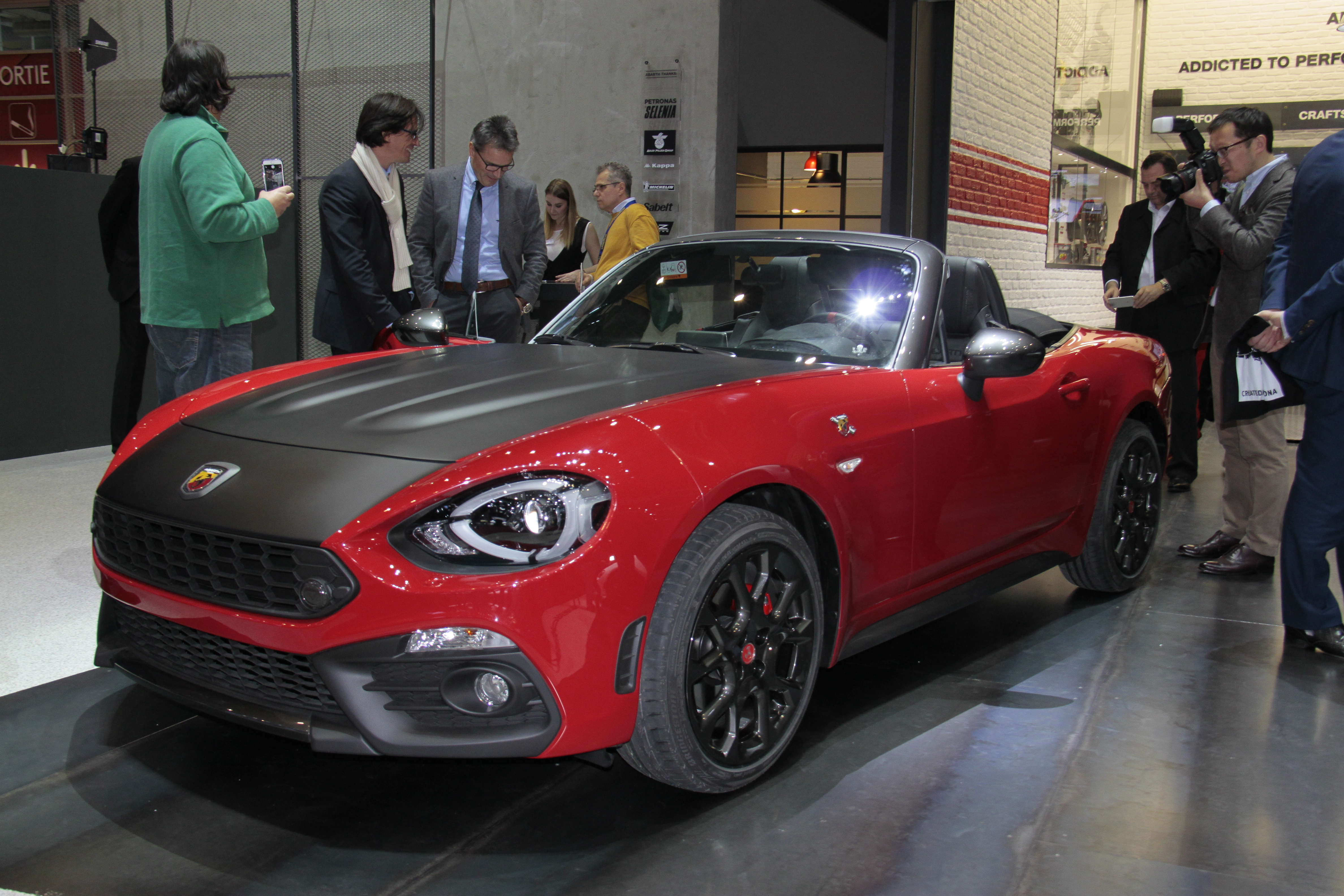 Abarth 124 Spider at the 2016 Geneva Motor Show